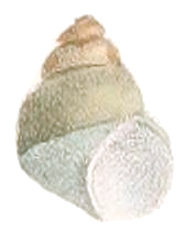 Drawing of an apertural view of a juvenile shell of Filopaludina javanica.